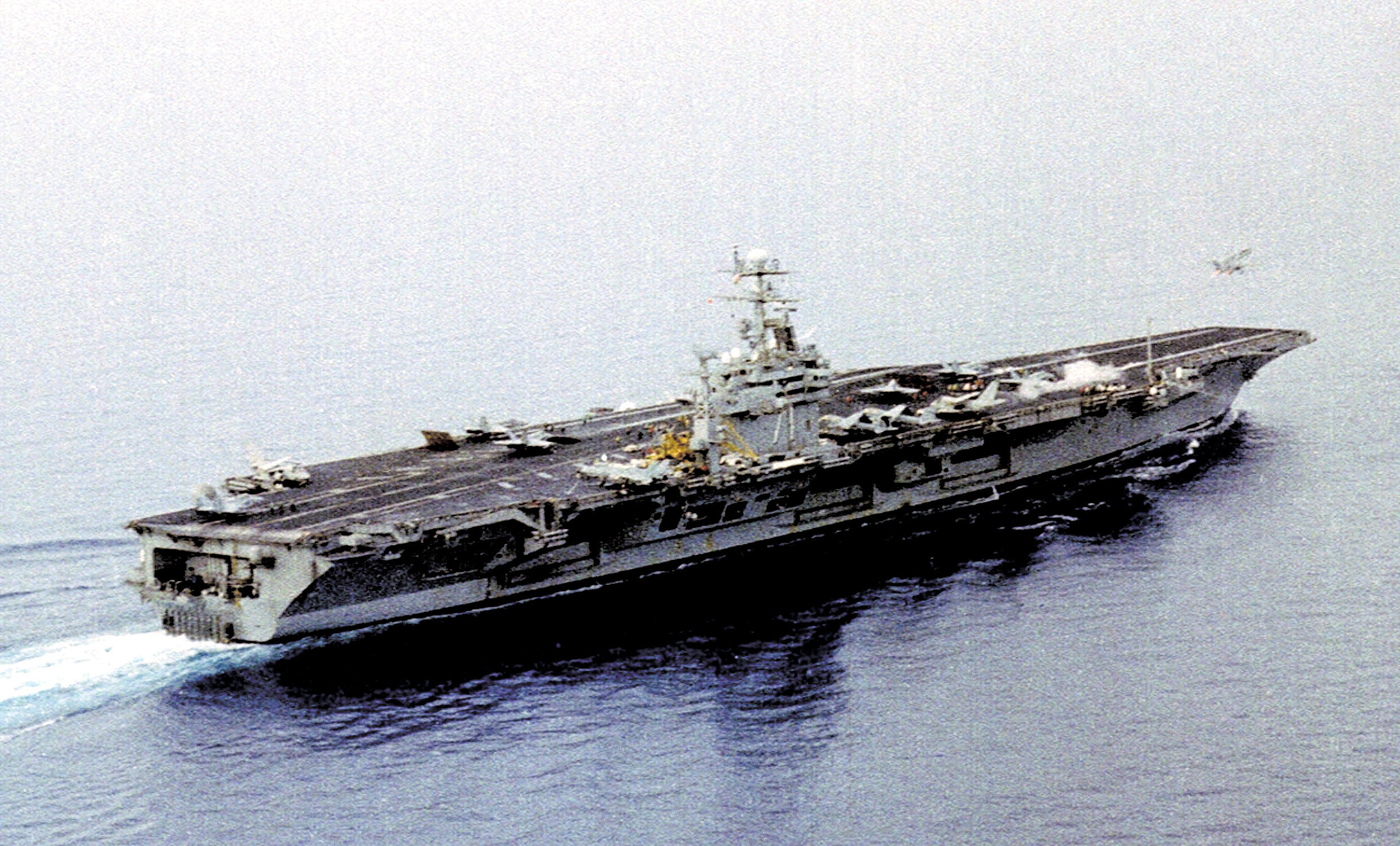 Adriatic Sea - May 3rd, 1999 - Through the "sea haze" high above the Adriatic Sea, the nuclear powered aircraft carrier USS THEODORE ROOSEVELT (CVN 71) launches an F-18 "Hornet" from one of its (forward) bow catapults. Theodore Roosevelt and its embarked Carrier Air Wing (CVW) is currently on a regularly scheduled deployment, and is participating in the NATO-led operation Allied Force over the former Yugoslavia.